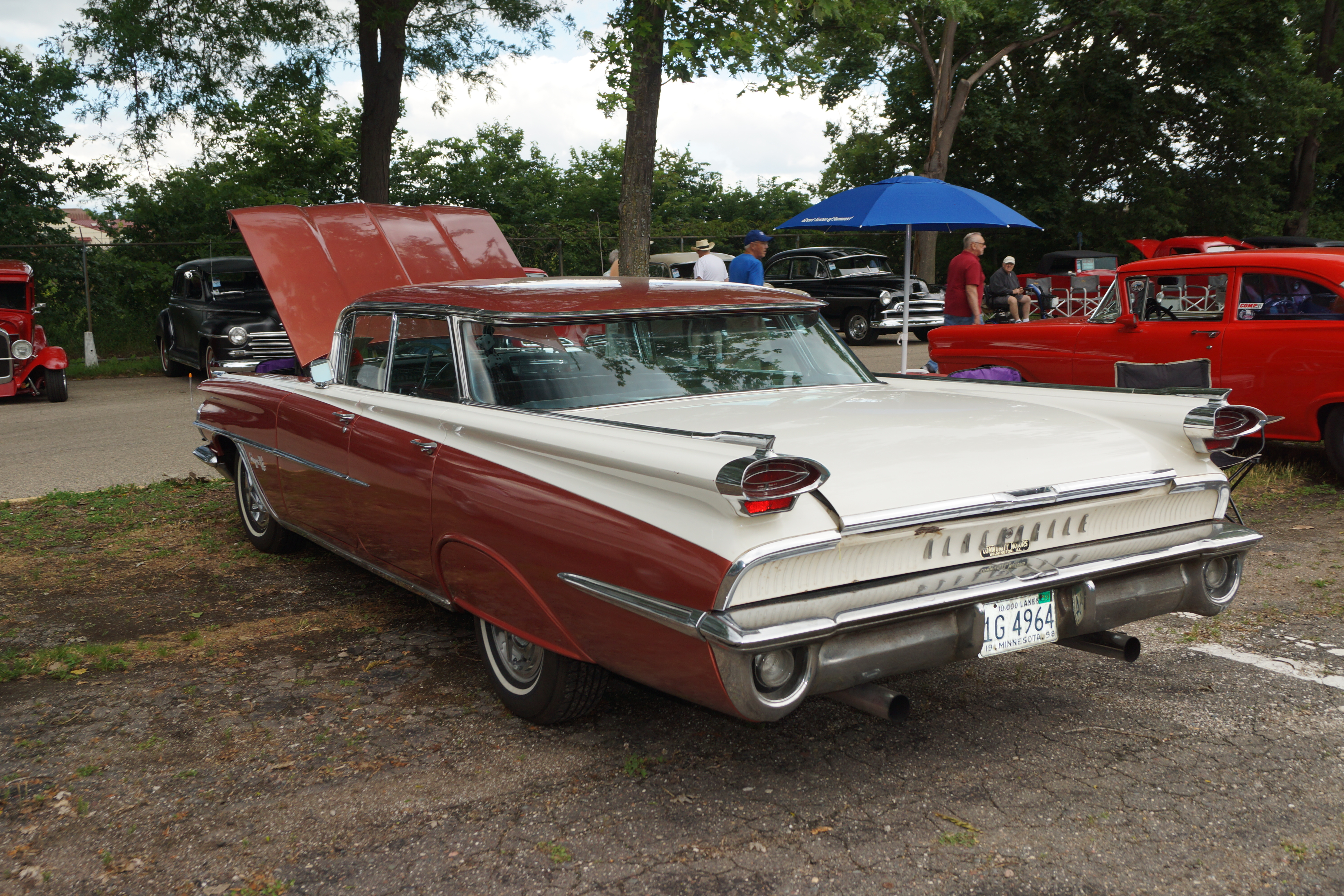 Minnesota Street Rod Association (MSRA) “BACK TO THE 50′s” 44th Annual Car Show June 23-25, 2017 Minnesota State Fairgrounds St. Paul Minnesota.